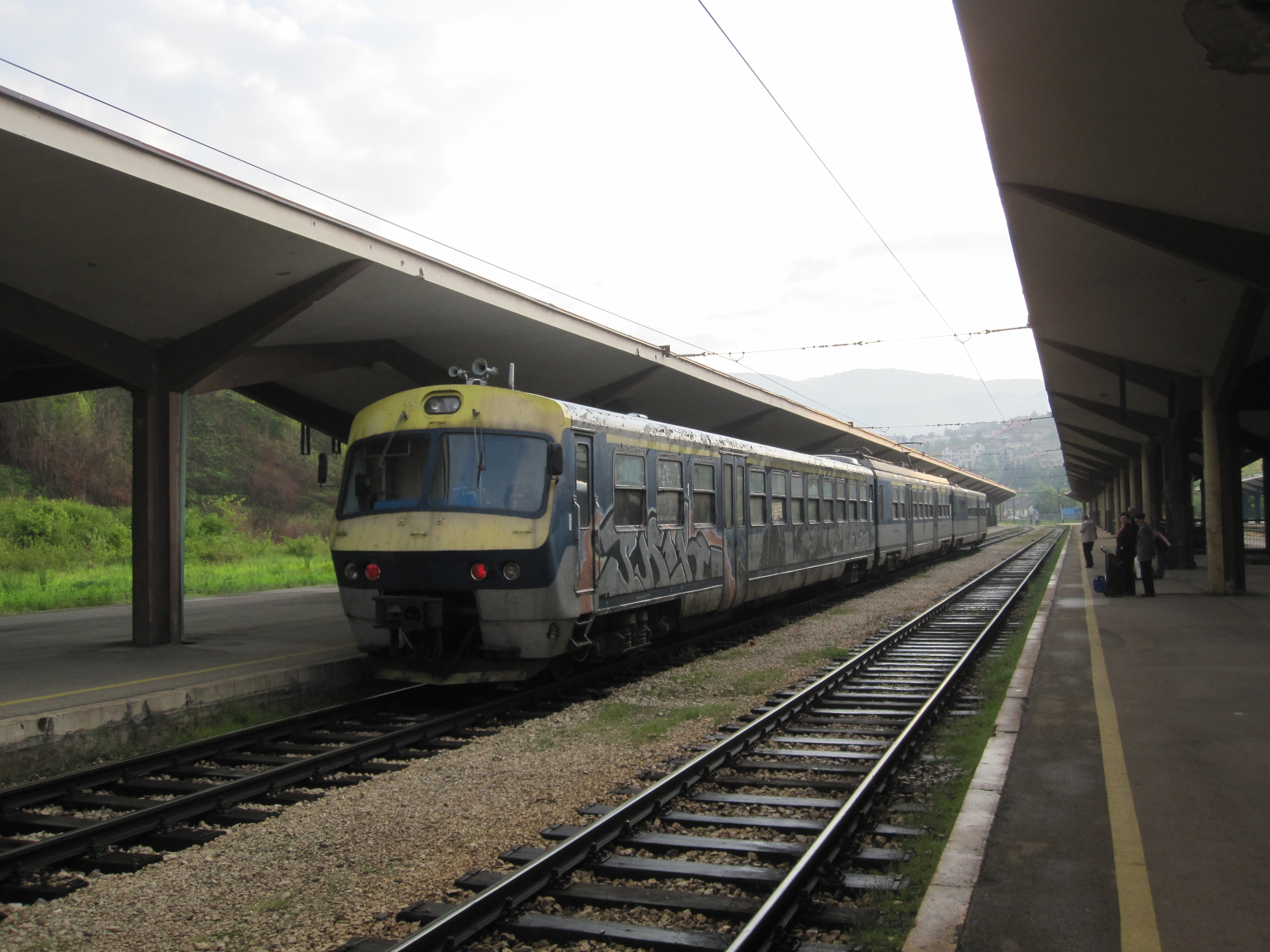 Bosnia is not quite unit free. The DMU between Tuzla and Doboj is featured elsewhere and if you plan to cover all lines you will get to travel on it. The EMUs based in Sarajevo work some of the stopping services. As a result for those on a straight "track bash" will just be a pose in front of the camera rather than a ride inside. Talgo stock from Spain has been ordered, tested but no definite date for introduction has yet been announced.